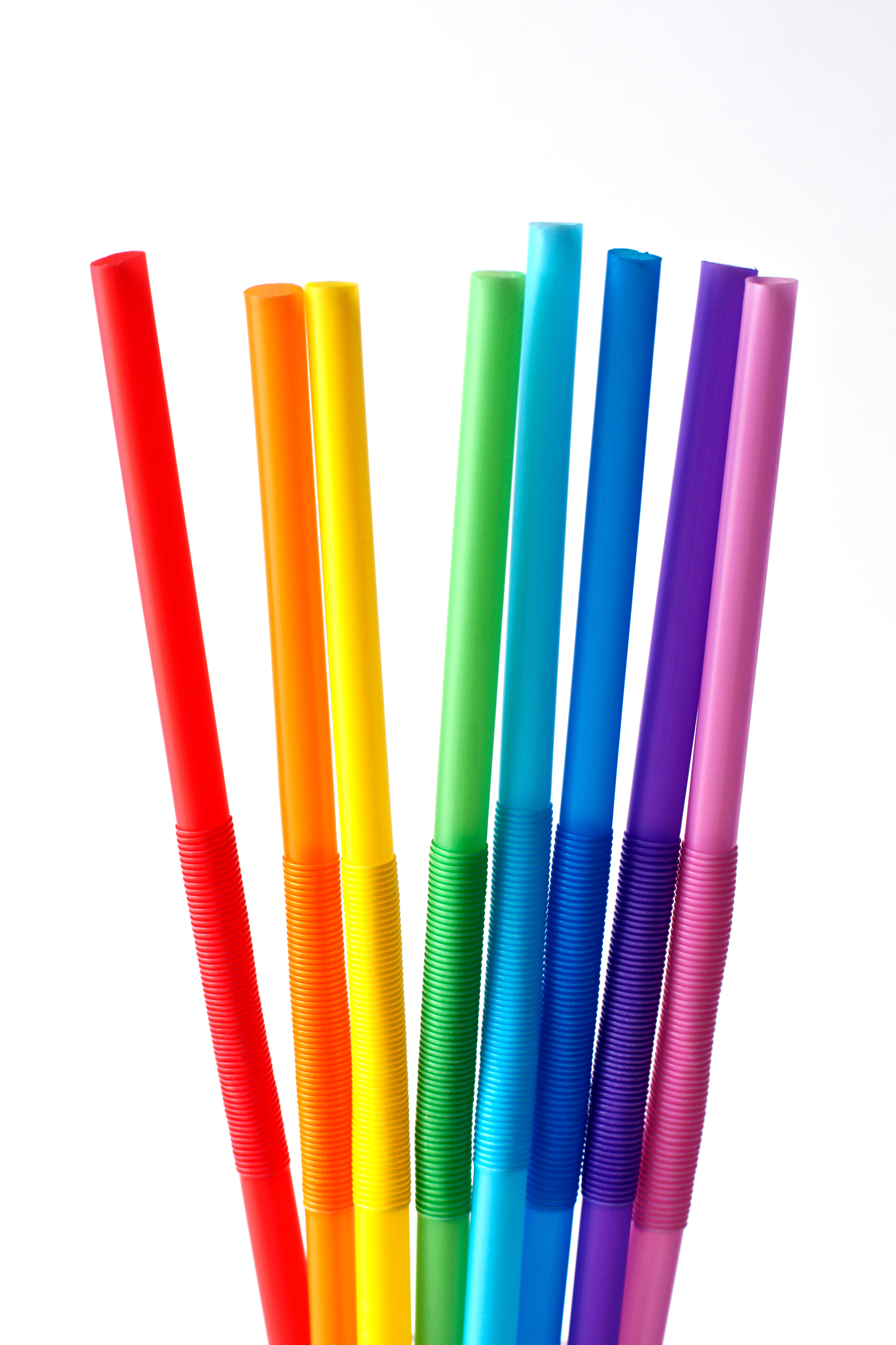 Eight long drinking straws made from plastic and having flexible heads positioned next to each other in order to look like the color gradation of the rainbow. They are standing against a white background.